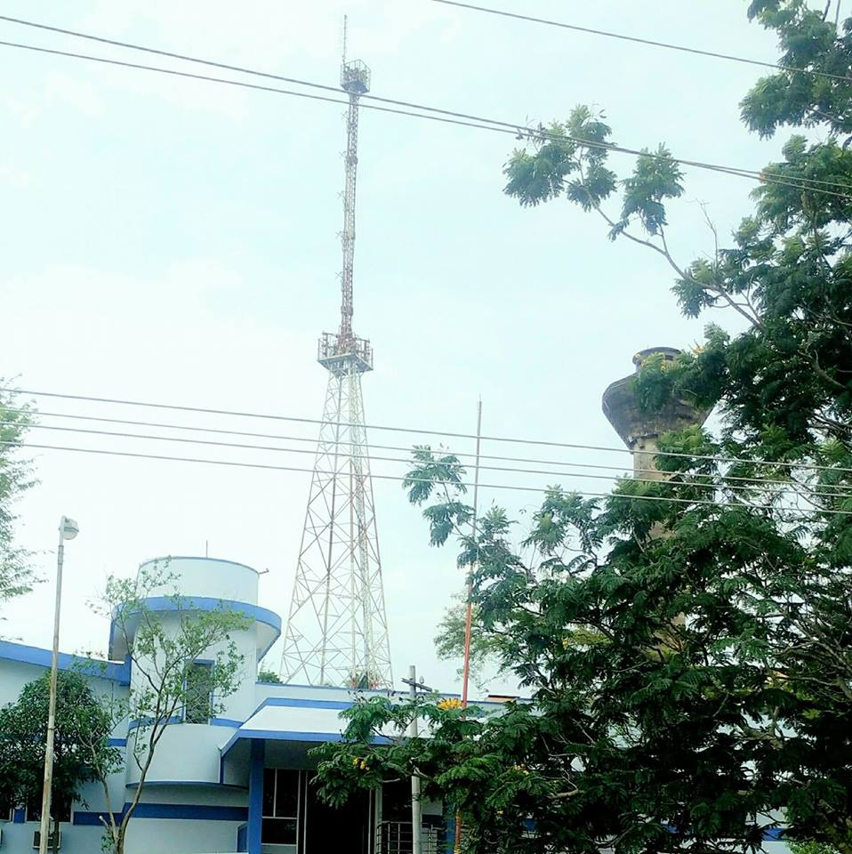 TRANSMITTER OF MANJERI F.M